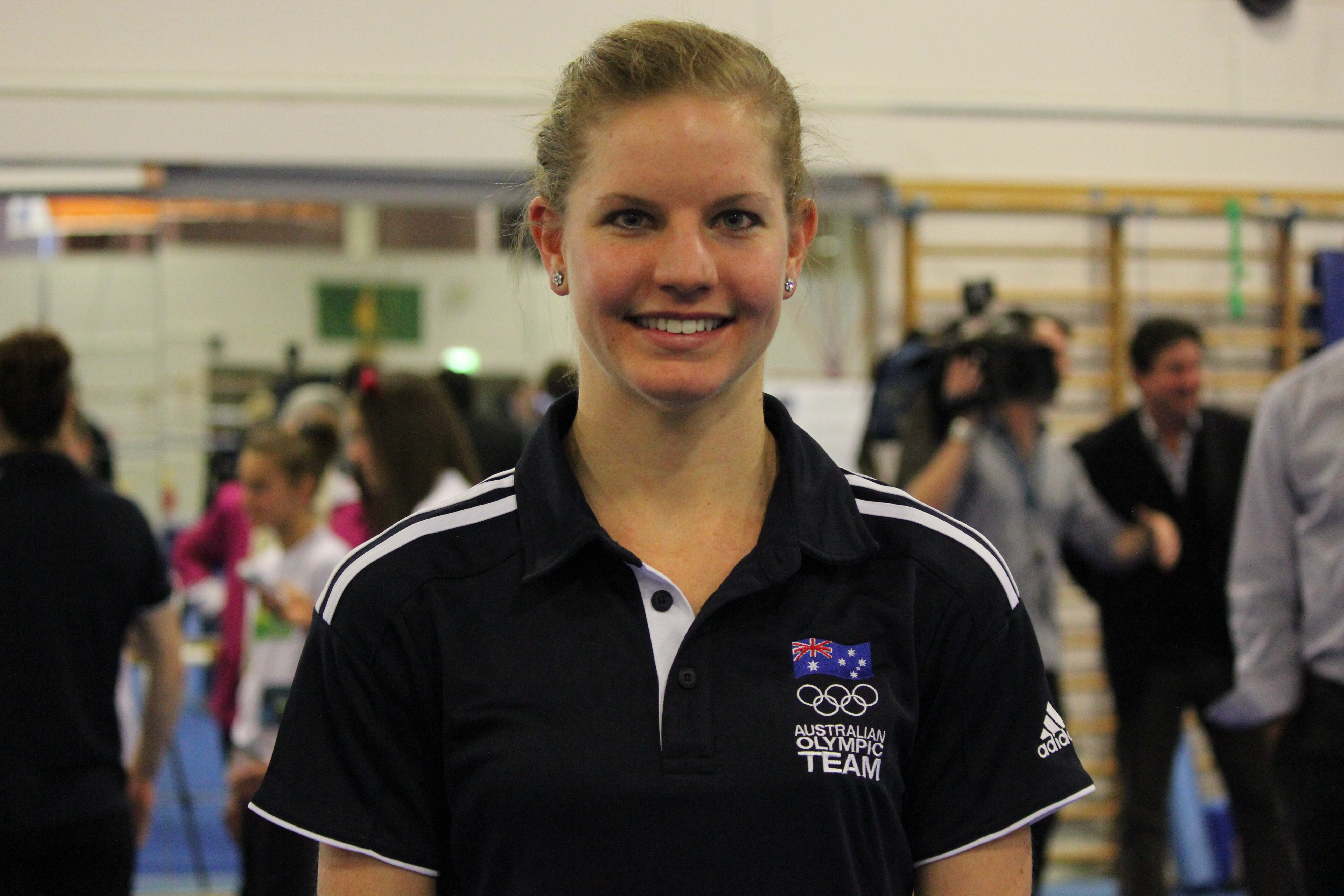 A head shot of an Australian gymnast or someone inside Gymnastics Australia. Janine Murray.